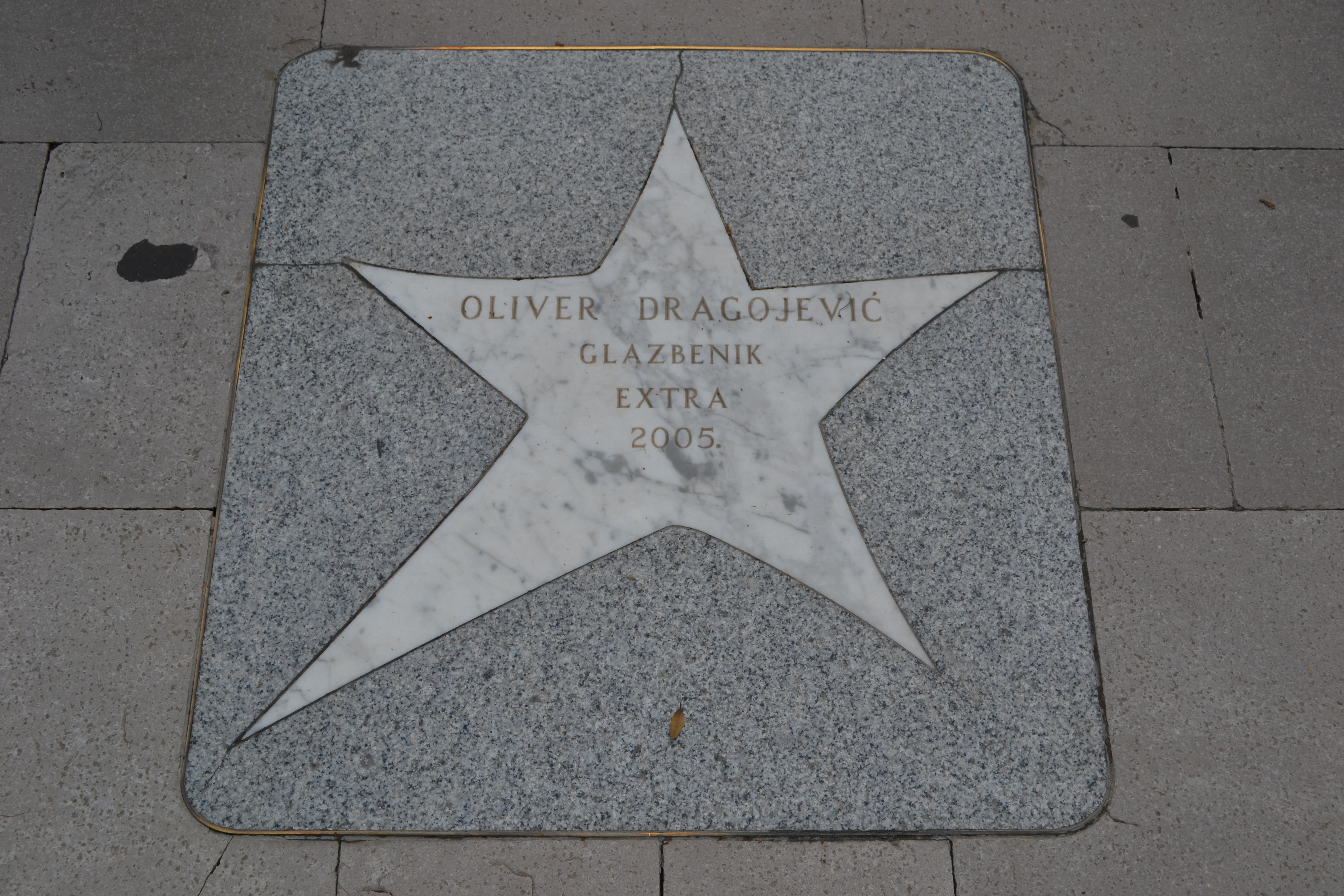 Croatian walk of fame with star of Oliver Dragojevic - singer, Opatija, Croatia